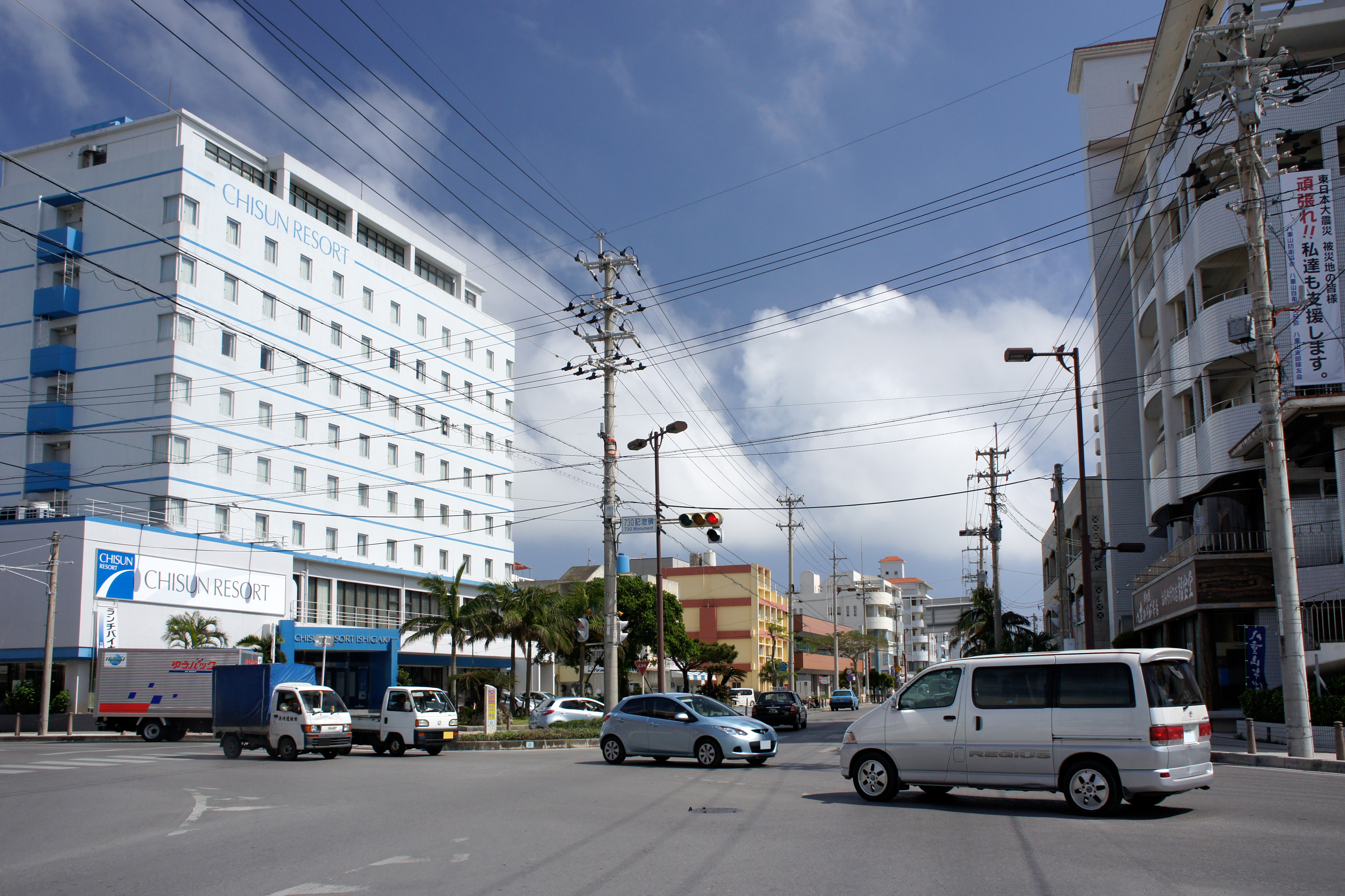 The 730 Crossing in Ishigaki Island, Ishigaki City, Okinawa Prefecture, Japan.